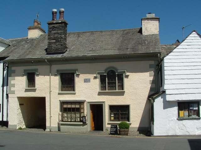 Beatrix Potter Gallery - on a sunny day! This National Trust property was the office of Beatrix Potter's solicitor, W. Heelis, who eventually married her. It contains displays of the artwork for several of Beatrix Potter's books.